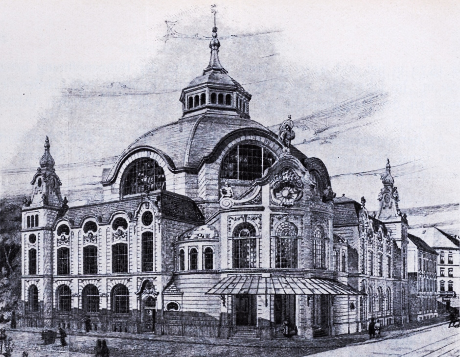 Apollo-Theater Düsseldorf Architekt Hermann vom Endt Düsseldorf, Zeichnung.jpg